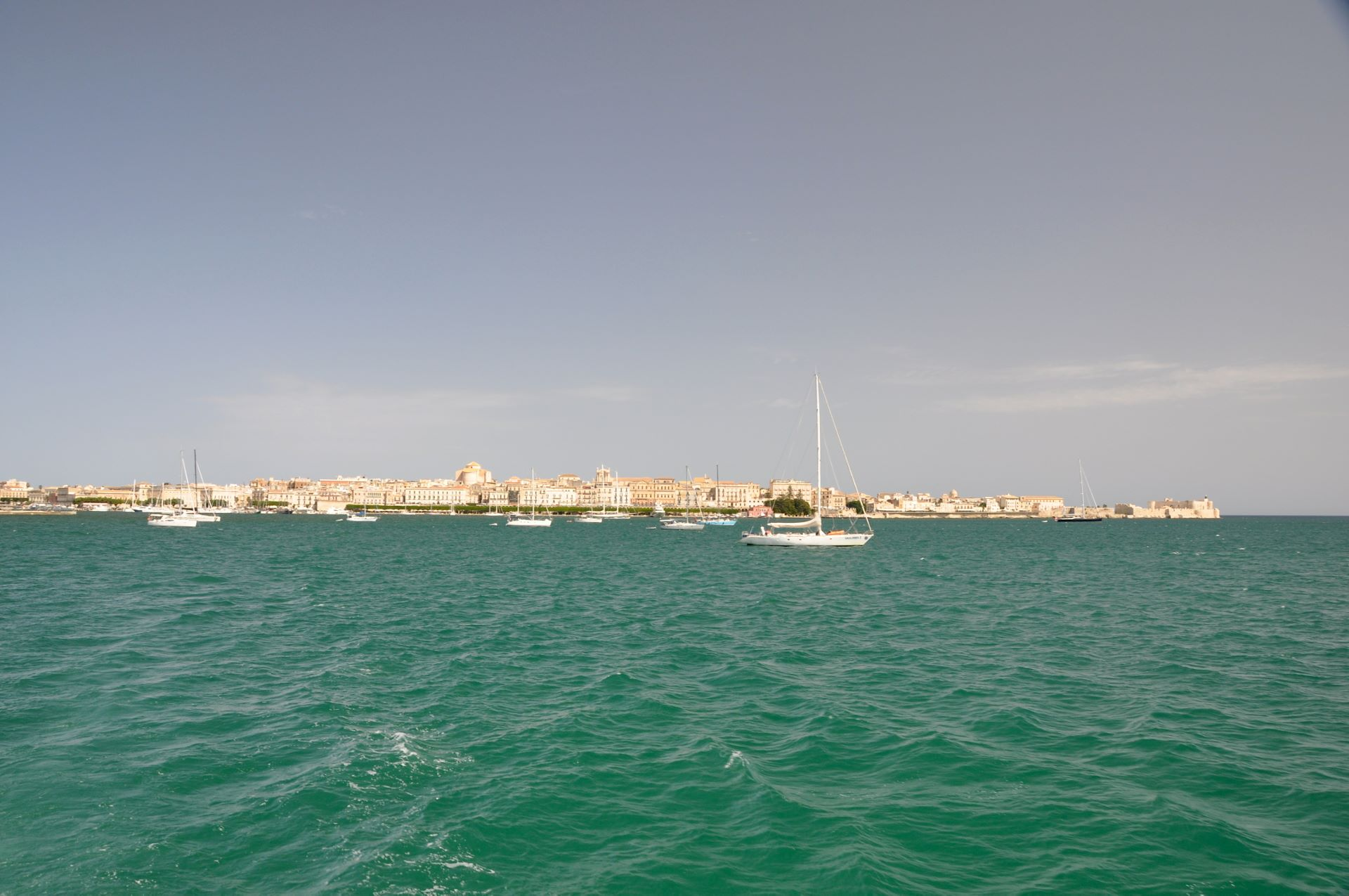 Syracuse by Ionian Sea